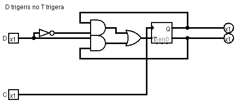 DtoT